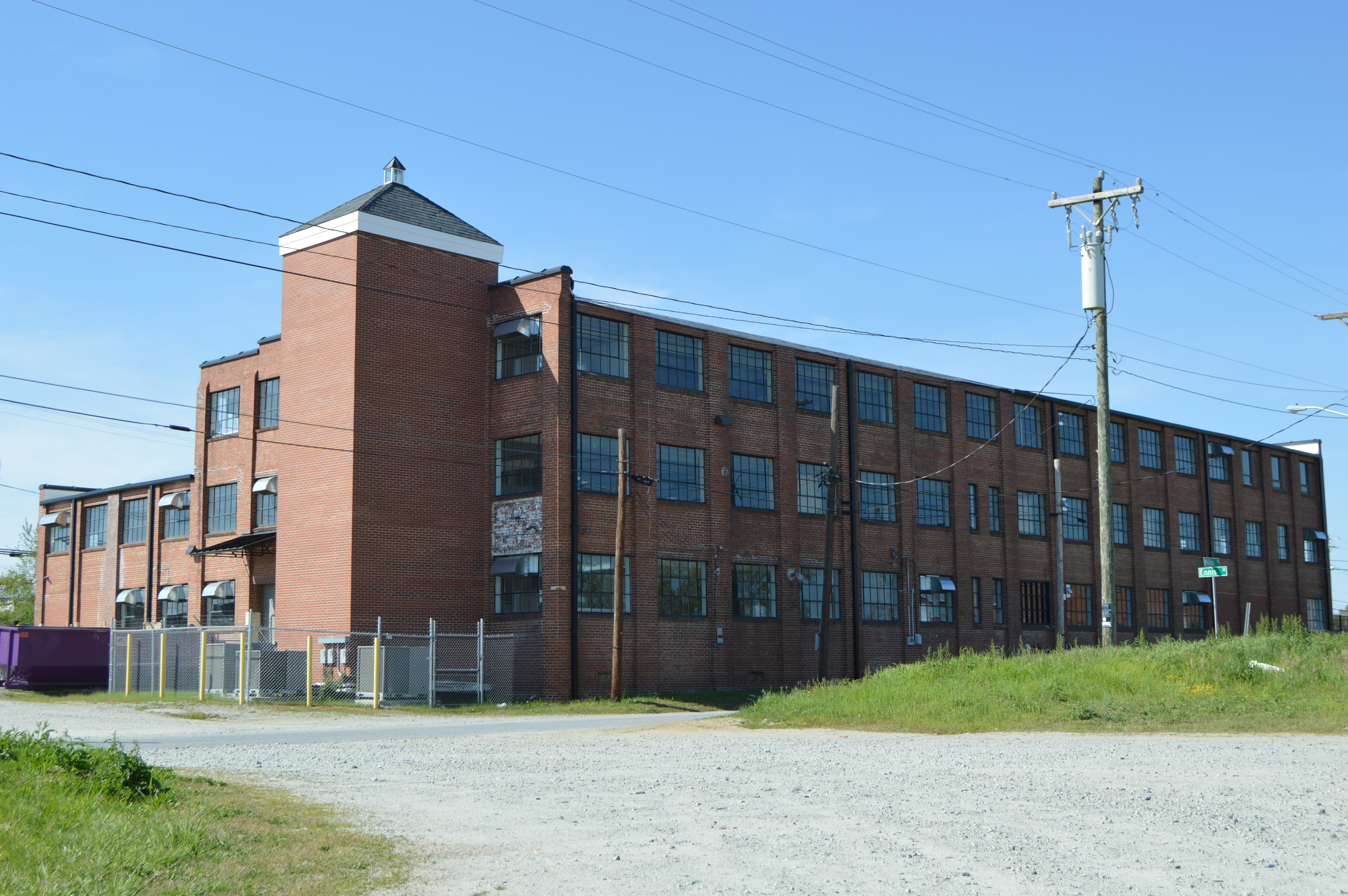 Front and southern end of the former Carolina Casket Company, located at 812 Millis Street in High Point, North Carolina, United States. Built in 1929, it is listed on the National Register of Historic Places.